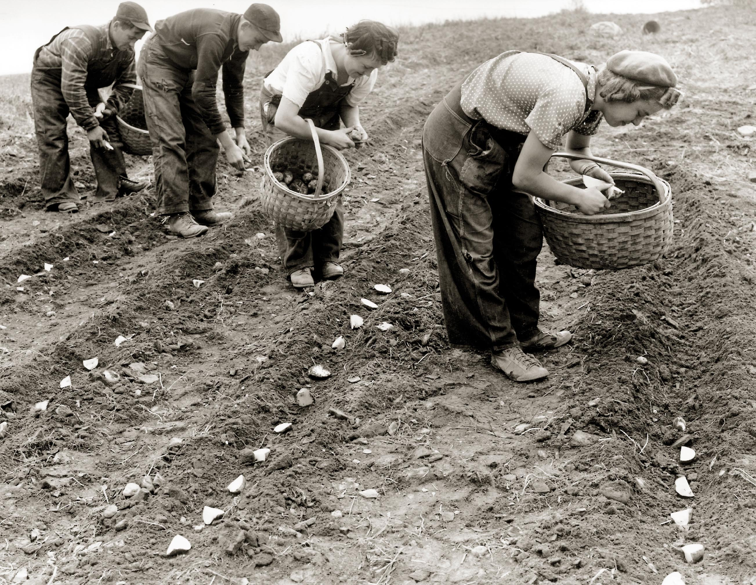 Potato planting circa 1940-50's